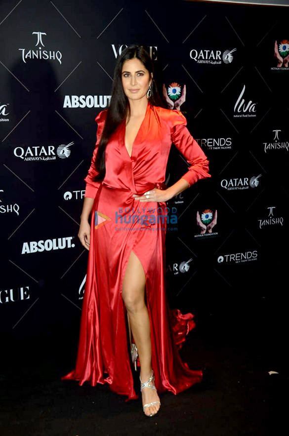 Katrina Kaif graces the Vogue Beauty Awards 2018